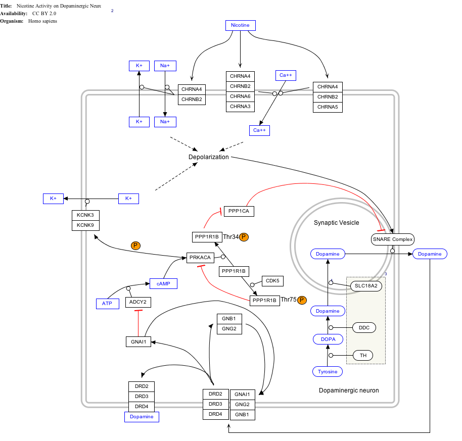 Diagram describing the activity of Nicotine in dopaminergic neurons, in humans.